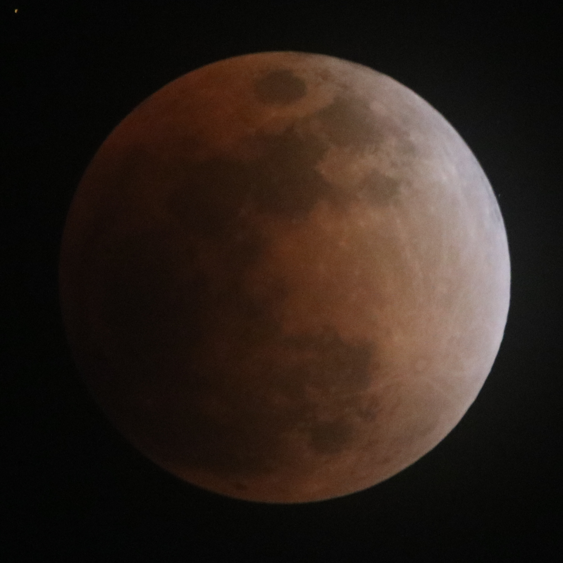 Lunar eclipse on January 31, 2018 in Aichi Prefcture, Japan.